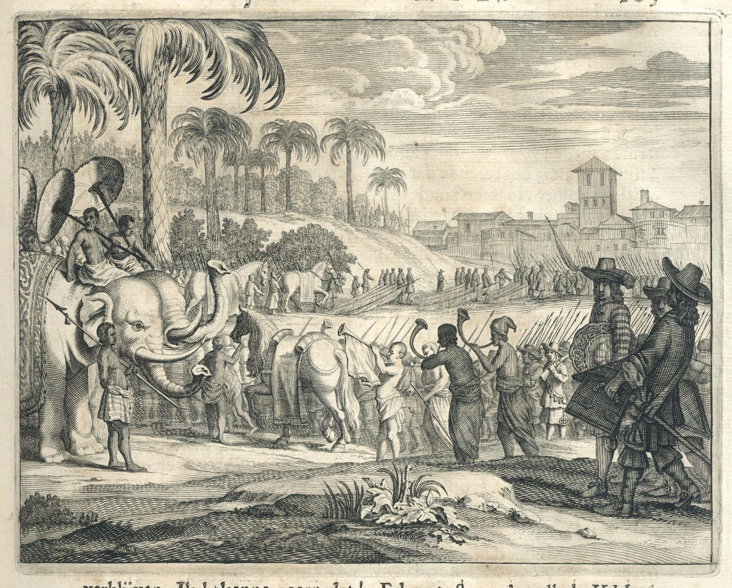 The arrival of general Hulft at the court of Rajasingha II. Shortly after this meeting Hulft was to lose his life during the siege of Colombo.